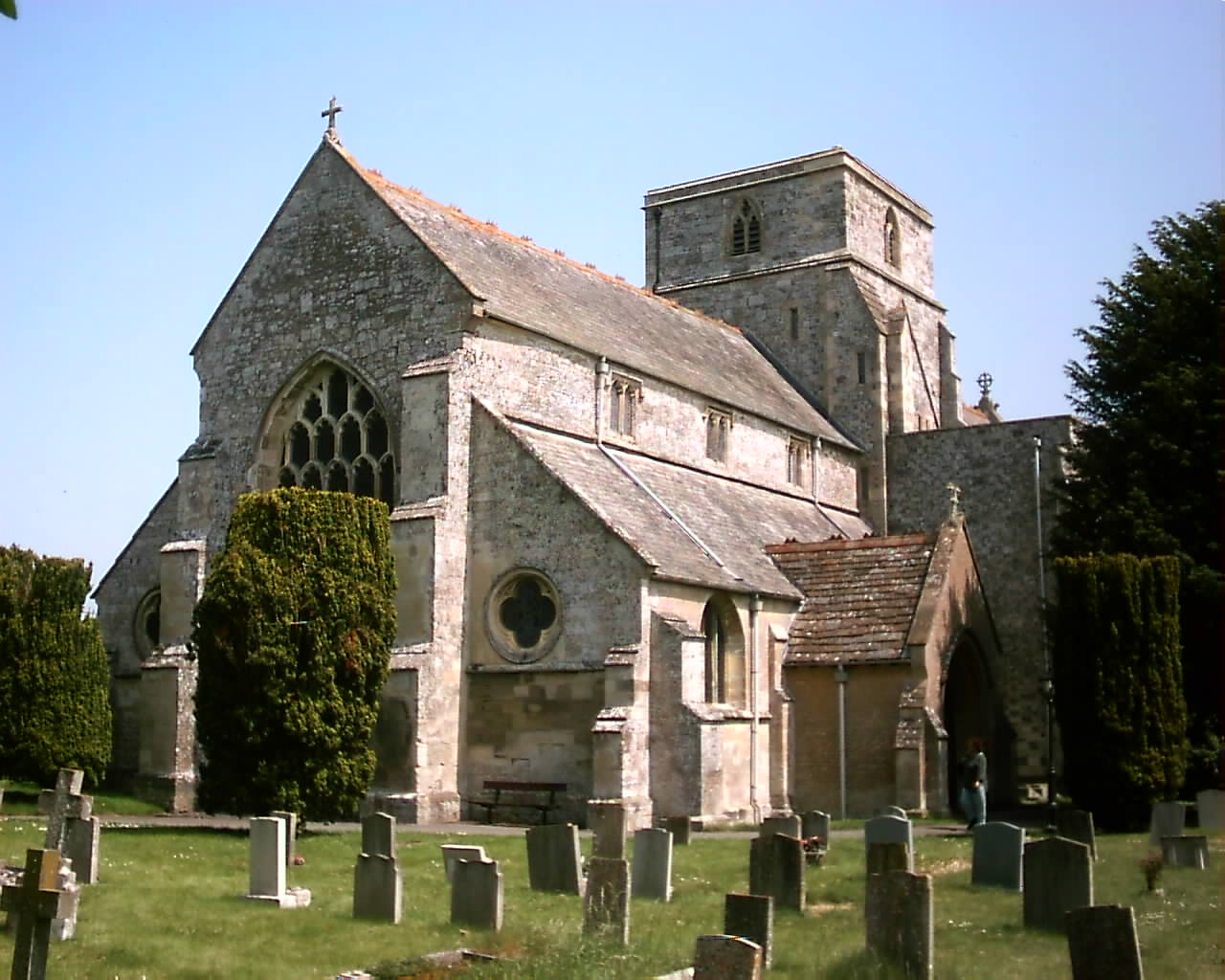 SS Peter and Paul parish church, Heytesbury, Wiltshire, seen from the southwest